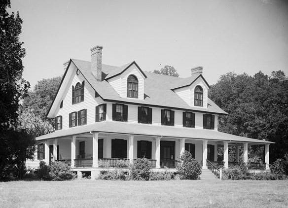 Dirleton Plantation, Road S-22-52 vicinity, Georgetown vicinity (Georgetown County, South Carolina). Historic American Buildings Survey of South Carolina, cropped Object location33° 30′ 13″ N, 79° 10′ 11″ W